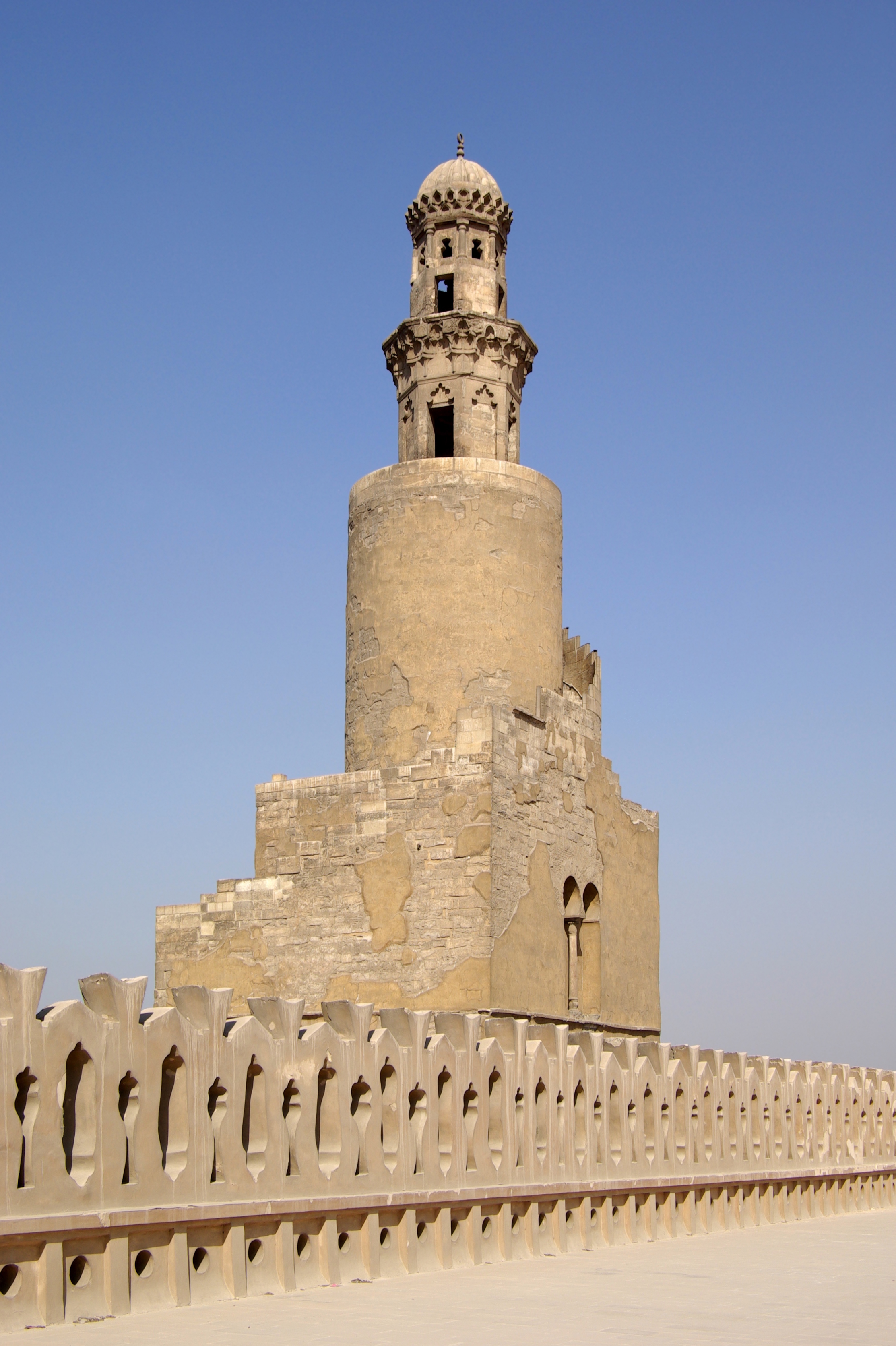 The minaret of the Mosque of Ibn Tulun in Cairo, which features a helical outer staircase similar to that of the famous minaret in Samarra.